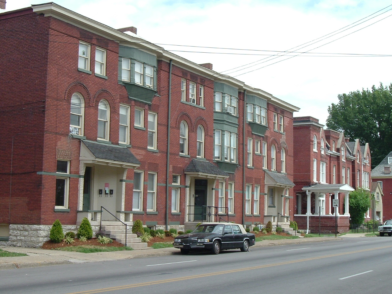 A Townhouse along Hill Street, Old Louisville. Taken by uploader, all rights released. Apartments shown are currently owned by Arete Real Estate.